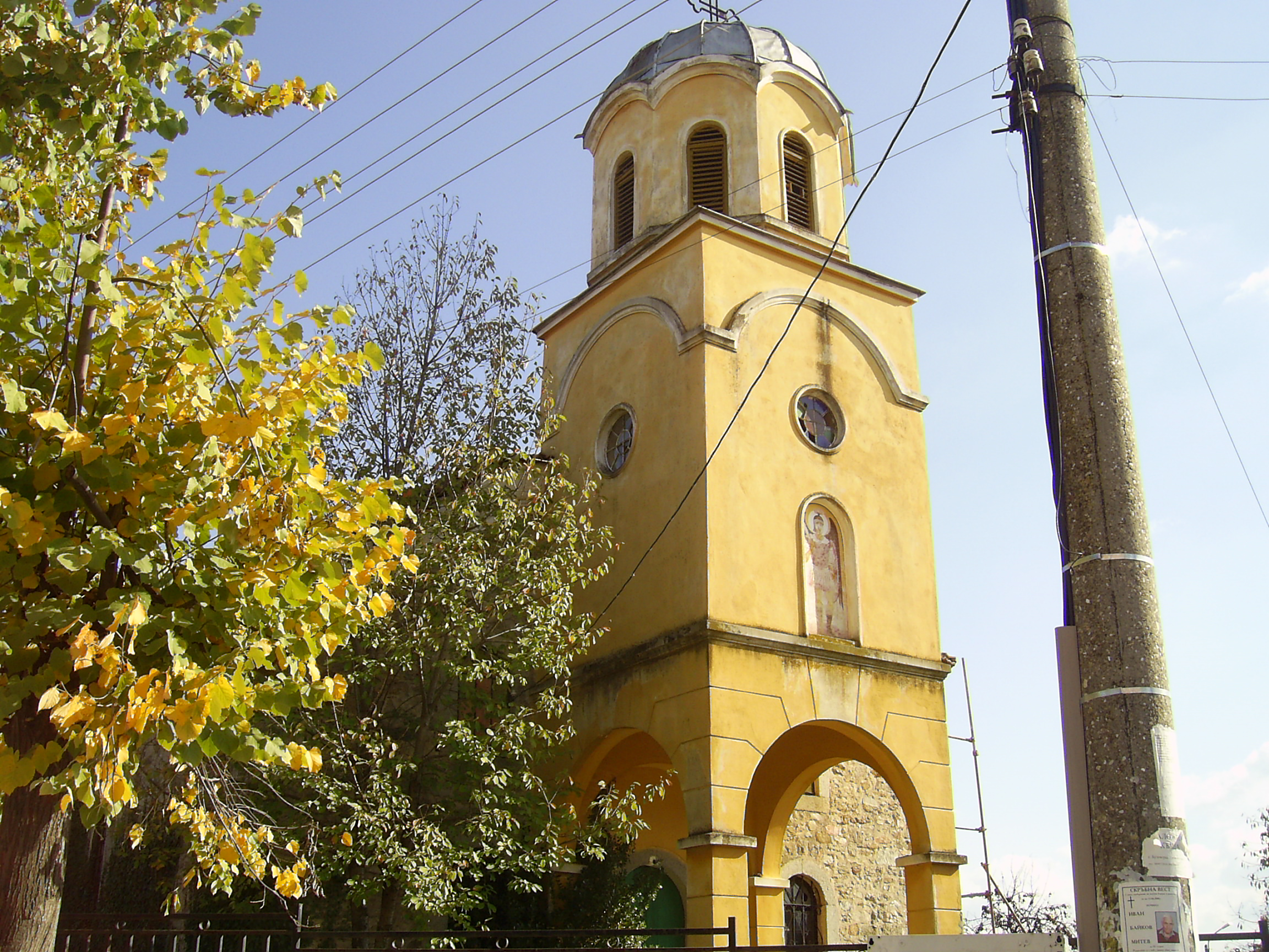 черква``Архангел Михайл``в с.Горно Черковище-изглед.вход